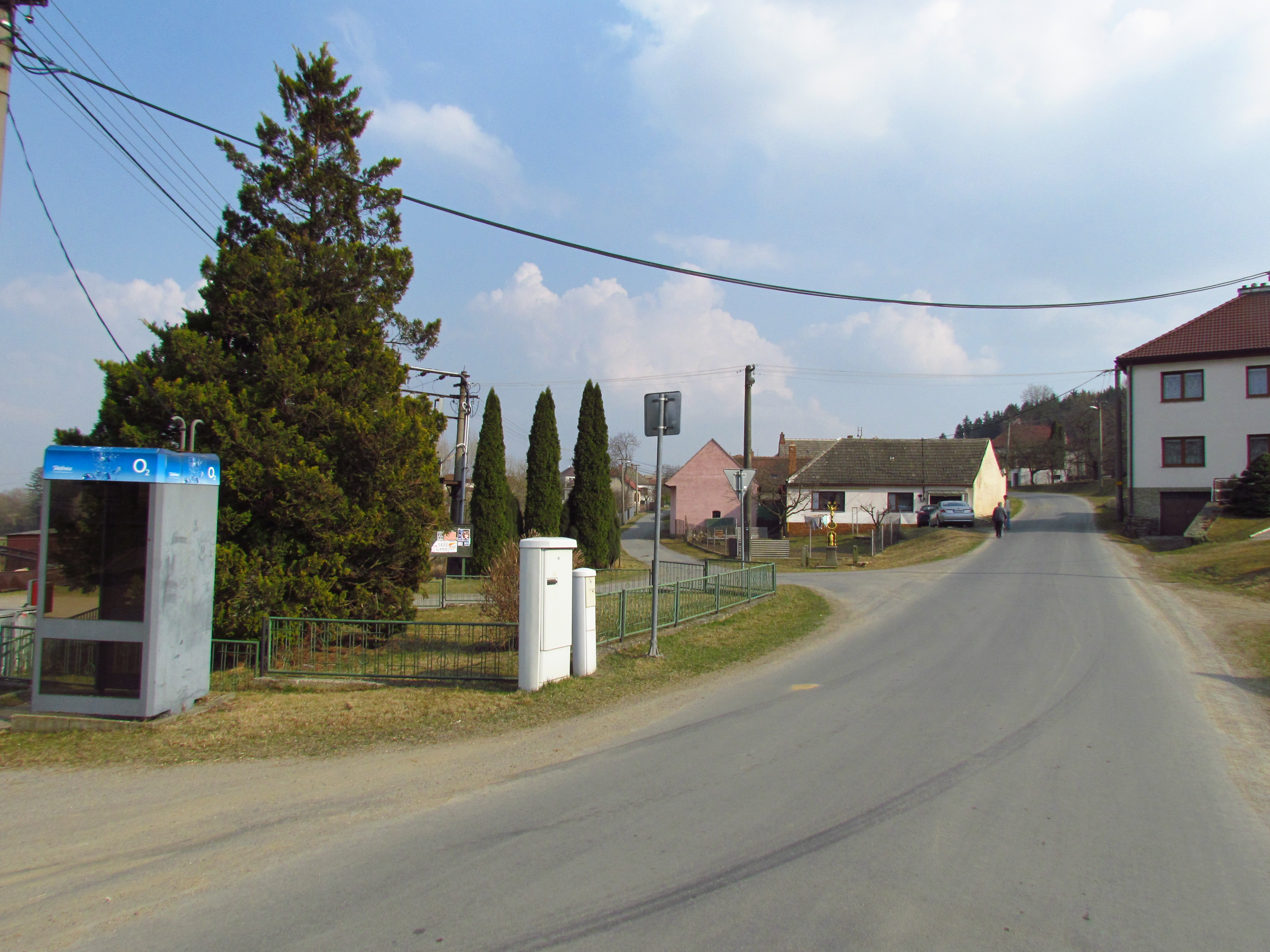 Center of Čechočovice, Třebíč District.